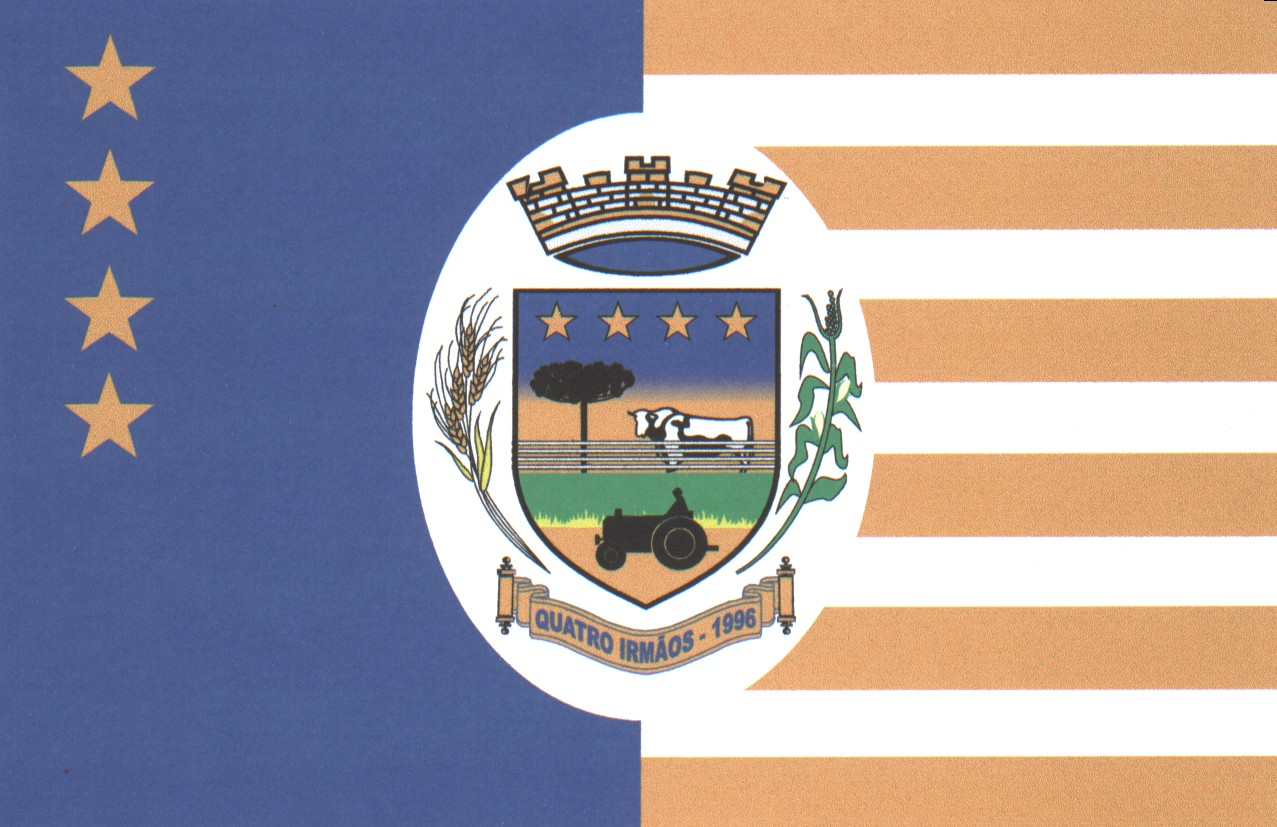 Flag of the city of Quatro Irmãos, Rio Grande do Sul, Brazil.